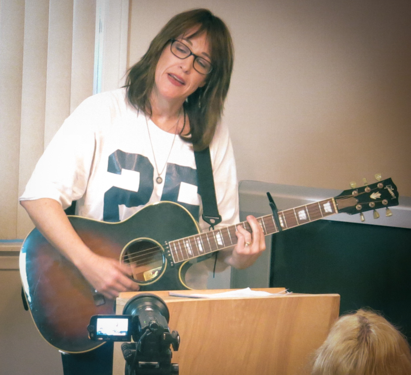 Kathleen Wilhoite at Vicki Abelson's Women Who Write